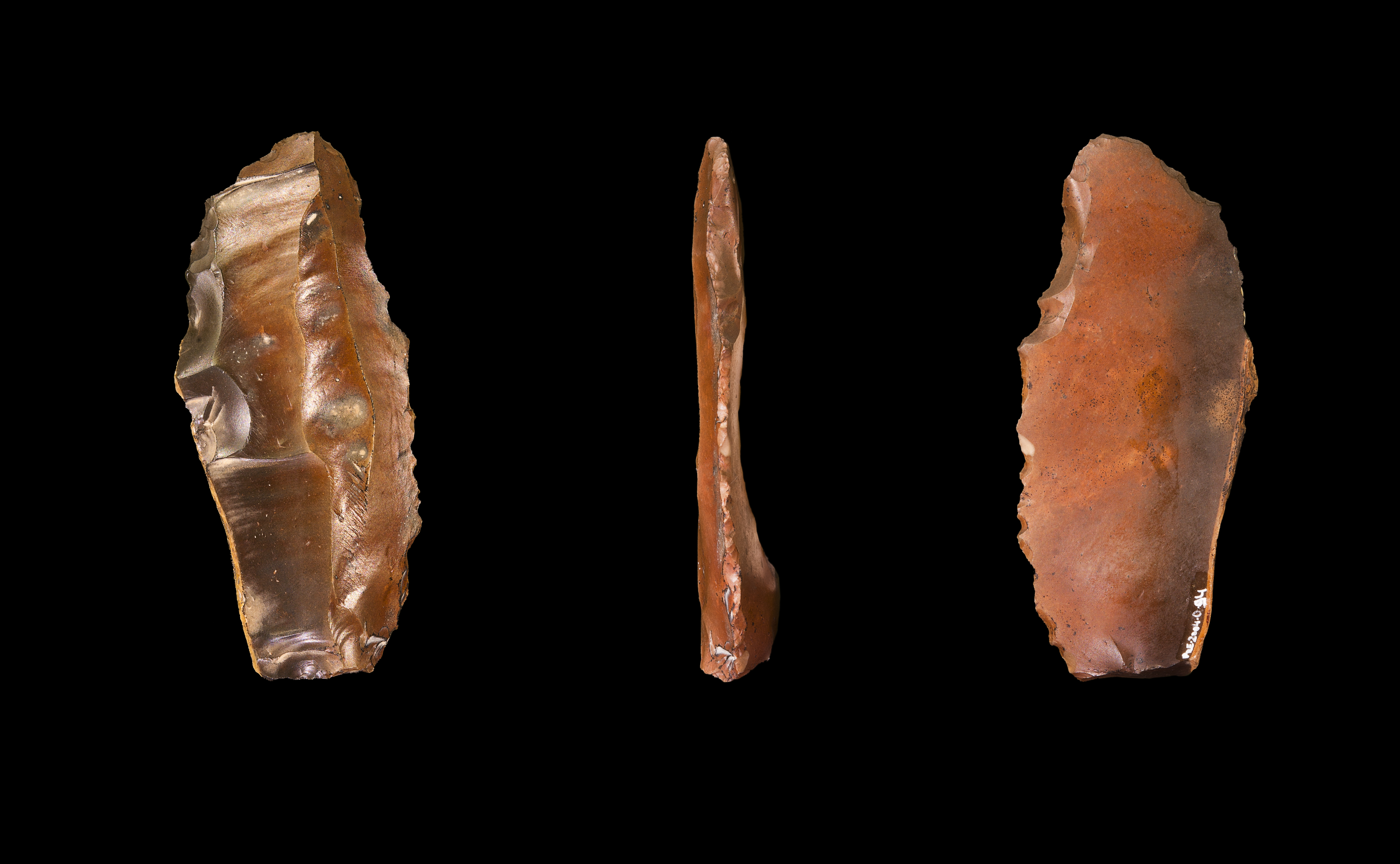 Blade - Different views of the same specimen